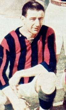 Photo of Alfredo Carricaberry taken during his time as a San Lorenzo player (1920-1930)